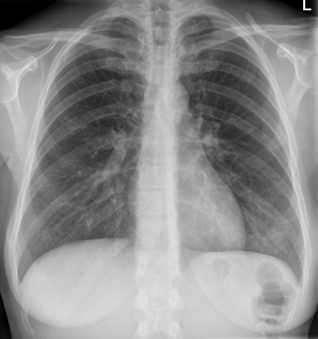 Pneumonia in cest-X-ray, hardly visible. See lateral view.